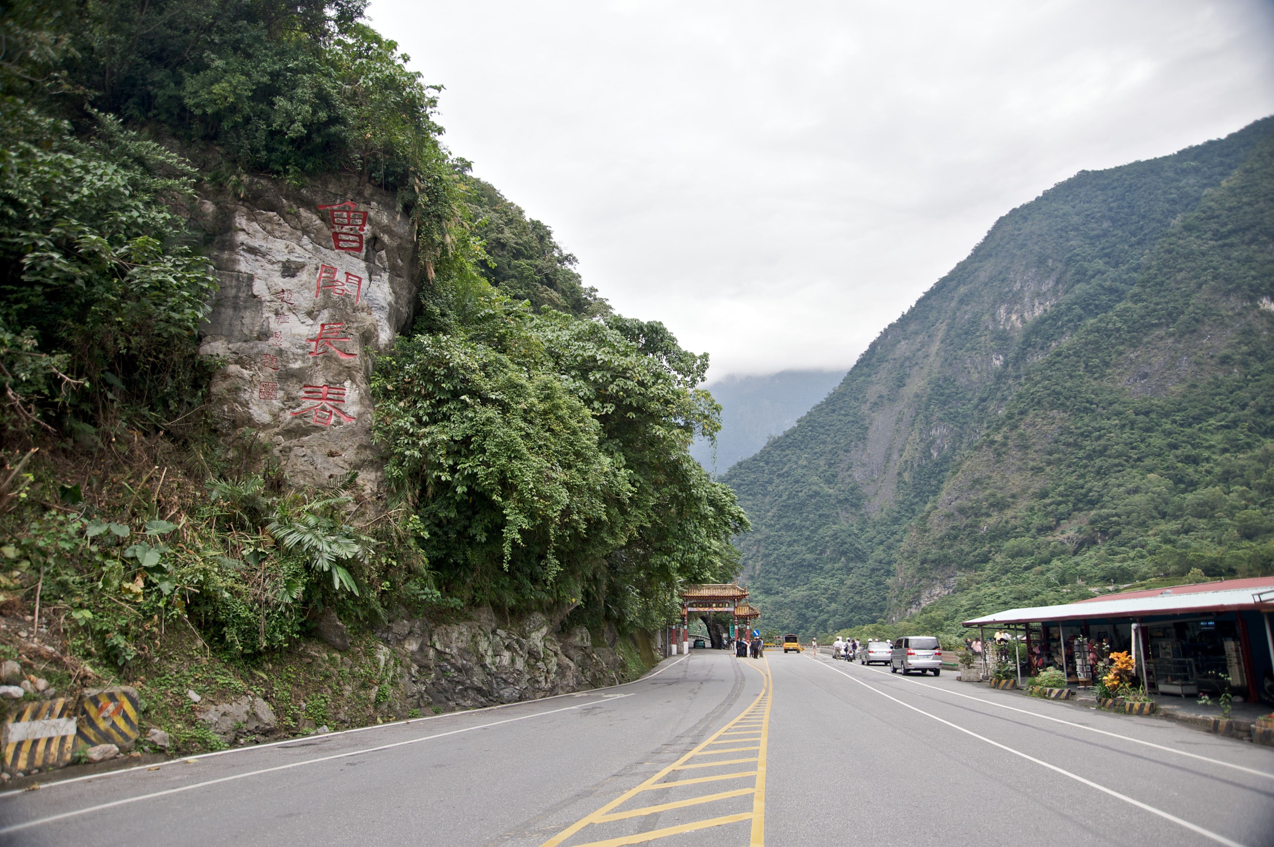 East end of the Central Cross-Island Highway at Taroko Gorge in Taiwan